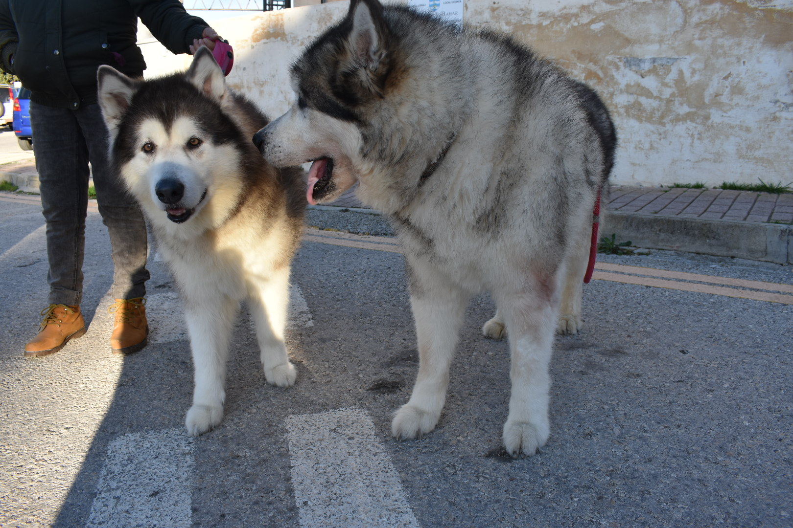 Buġibba Harbour